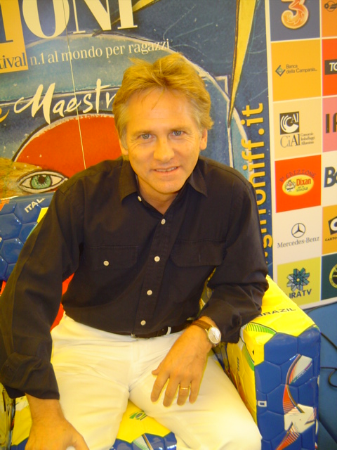 Giulio Scarpati at the 2008 Giffoni Film Festival, photo by the author